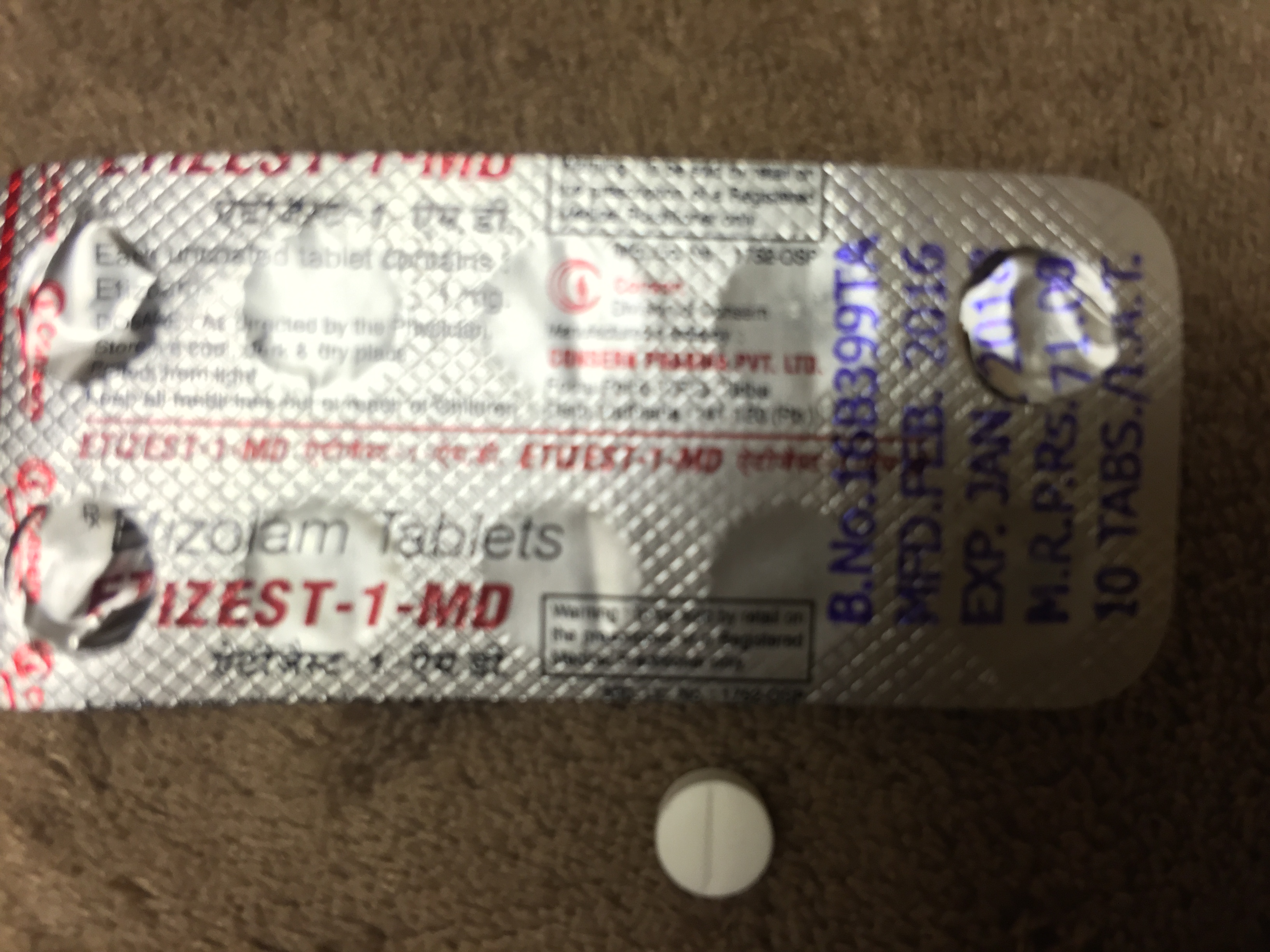 This is a photo of a 10-ct. blister pack of Consern Pharmaceuticals-produced etizolam mouth-dissolving tablets (Etizetst-1 MD); each tablet contains 1mg of etizolam and this version is meant to be absorbed sublingually